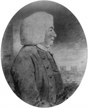 Rev.Jeremiah II Milles (1714-1784), Dean of Exeter, with Exeter Cathedral in background. Watercolour portrait painted in 1785 by John Downman (1750-1824), 8 7/8 in. x 7 3/8 in. (225 mm x 188 mm). National Portrait Gallery, London, NPG 4590, purchased 1967